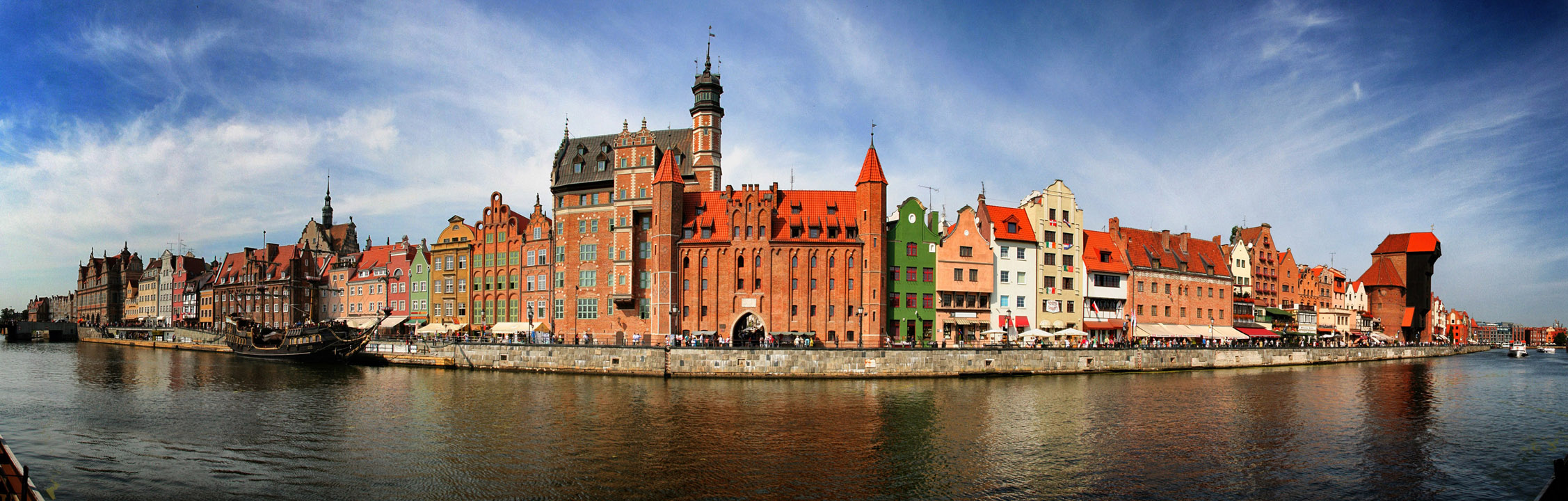 Gdansk old town.